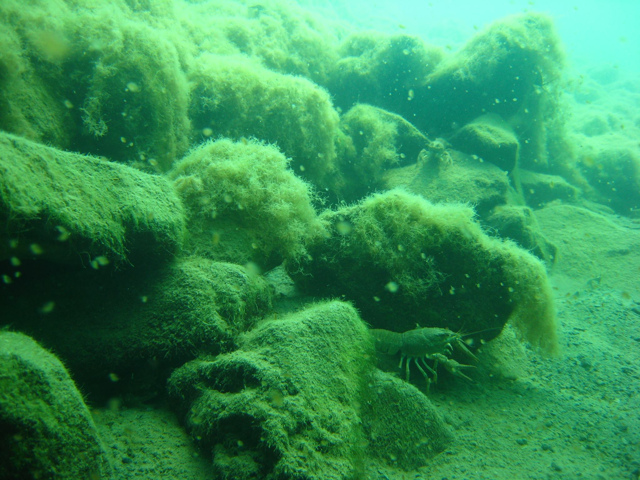 The bottom of Sevan lake